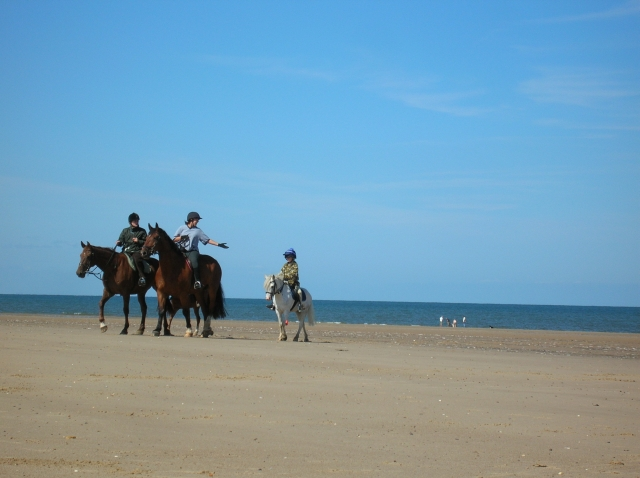 Horses on Holkham beach There were quite a few horses exercising on the beach. These horses having come down from the west took a rest here before heading back.